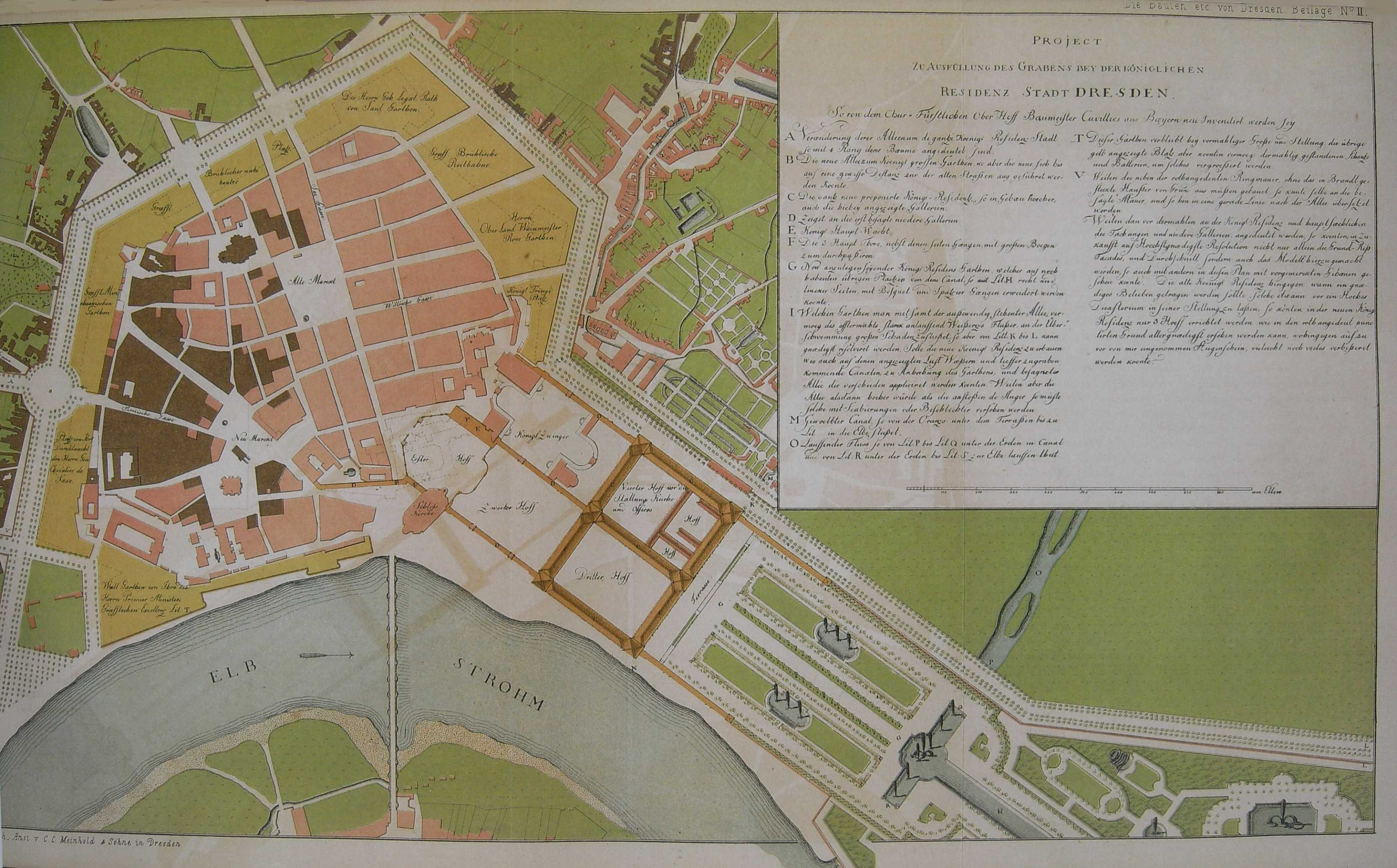 plan of project Residenzstadt Dresden (François de Cuvilliés), app. 1759